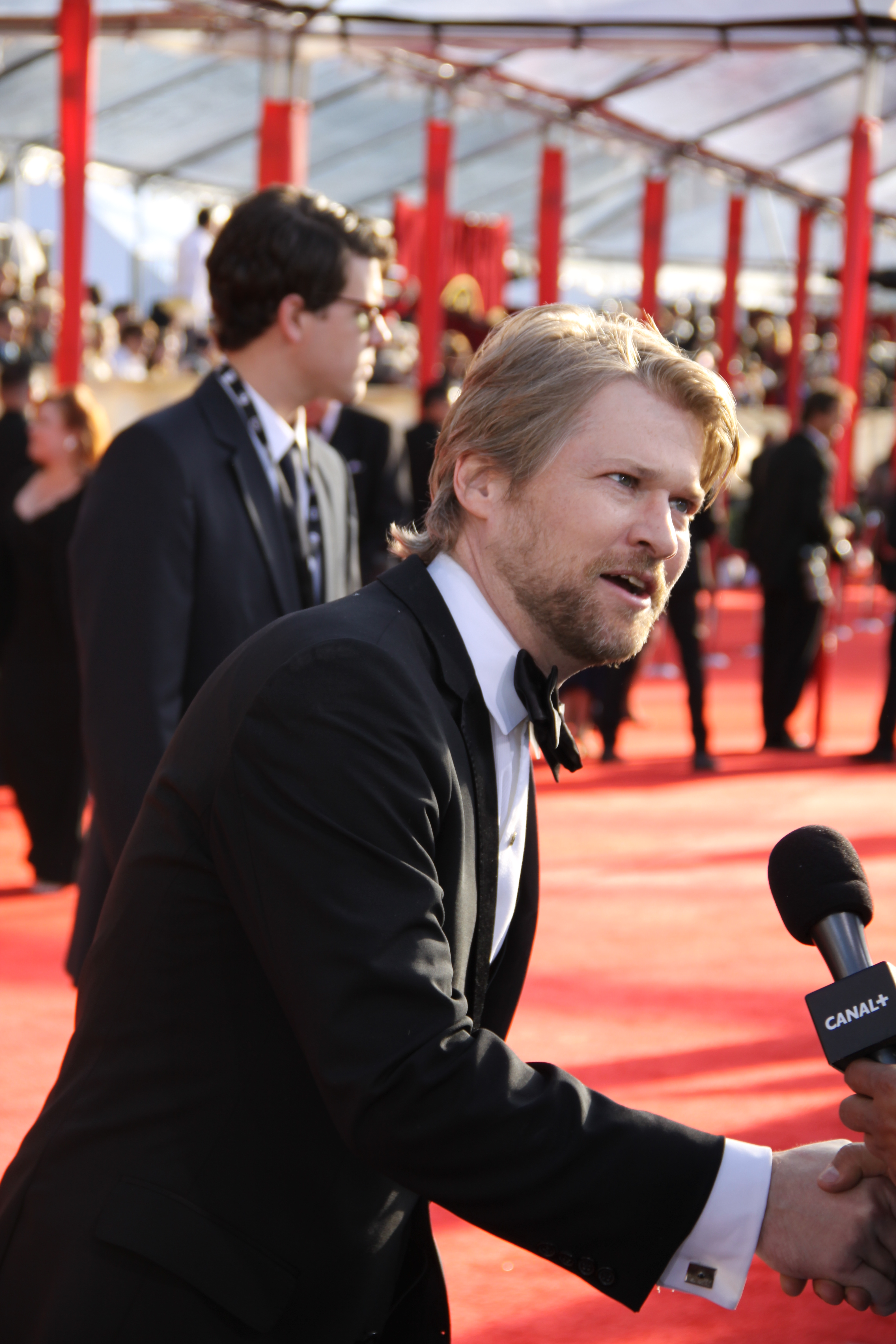 Todd Lowe at the Screen Actors Guild Awards at the Shrine Auditorium in Los Angeles on January 23rd, 2010.